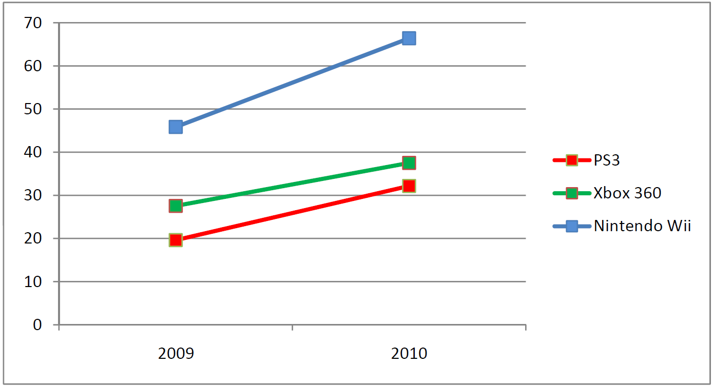 Worldwide evolution of home gamestations between early 2009 and early 2010.